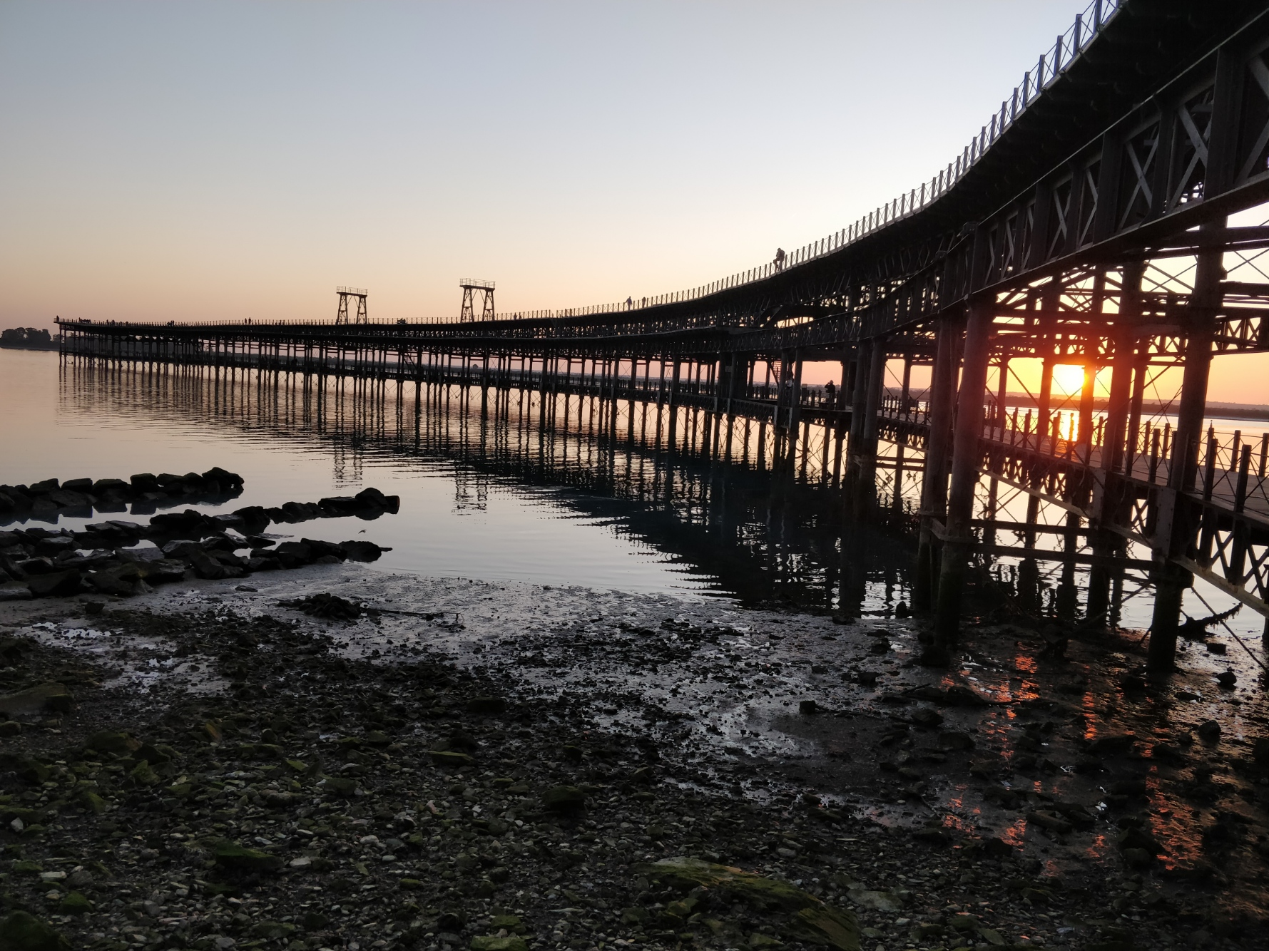 No longer used for commercial purposes the pier is a popular place to visit and take in the sunset